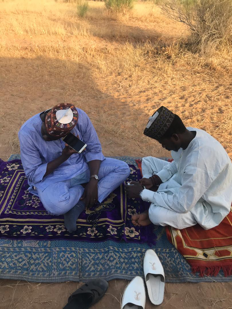 This is an image with the theme "Play" from: Niger